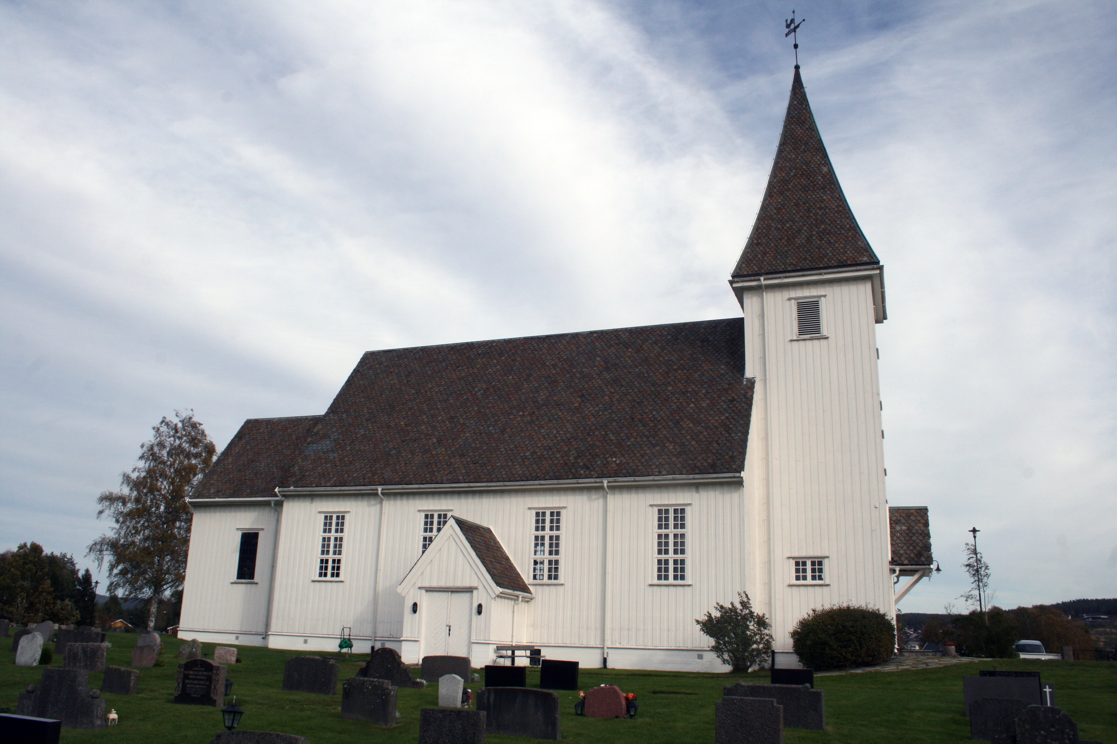 Bjørkelangen church in Aurskog-Høland, Norway. Built 1925; architect Th. Bjørnstad. Seen from the west.